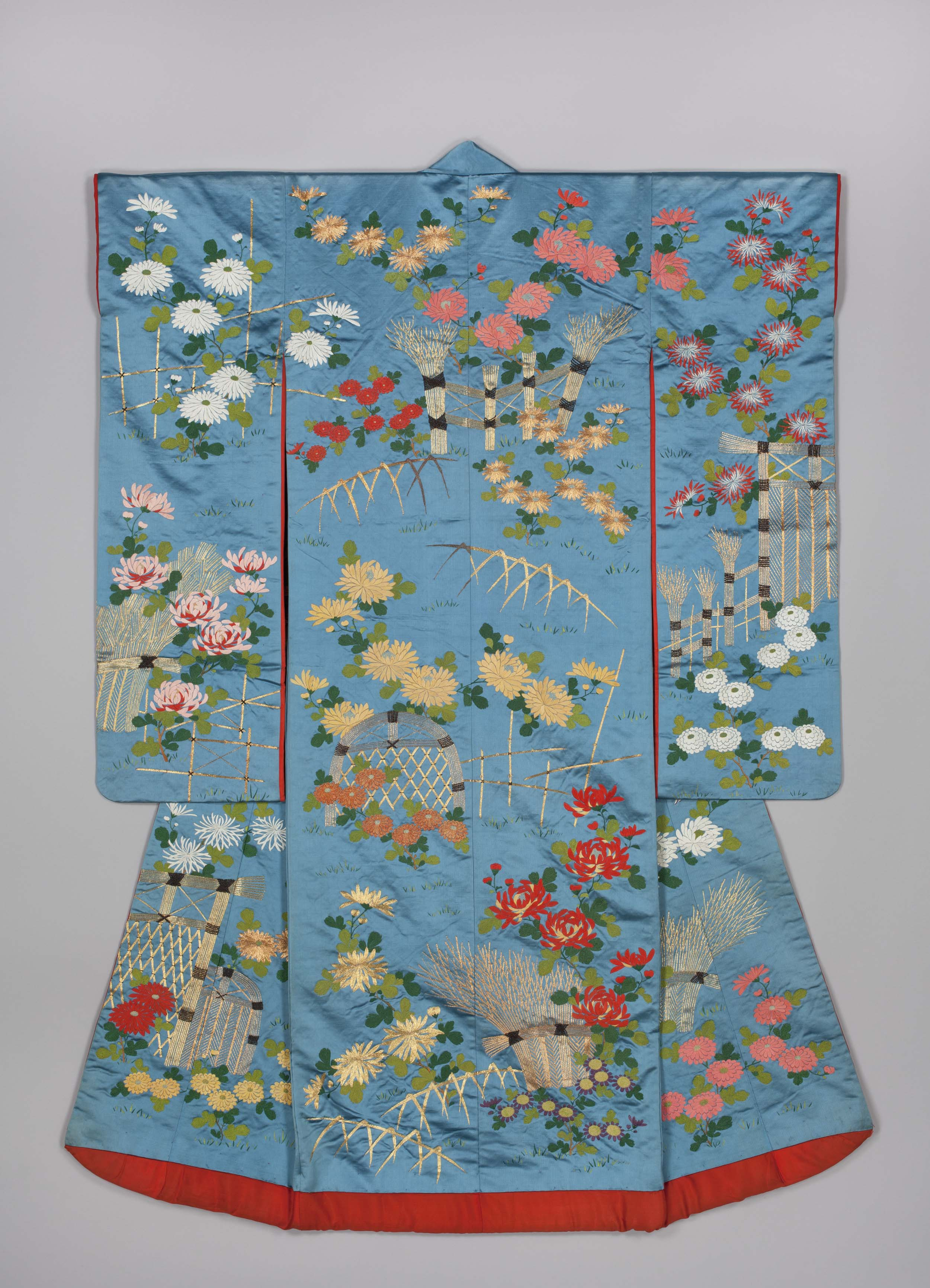 Outer Kimono for a Young Woman (Uchikake). Motif: Chrysanthemums and fences. From the Khalili Collection of Japanese Kimono.